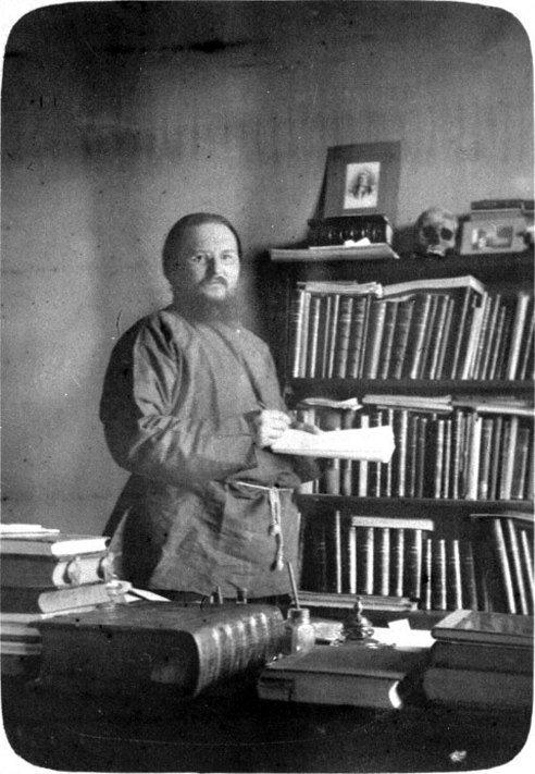 Alexey Ukhtomskiy